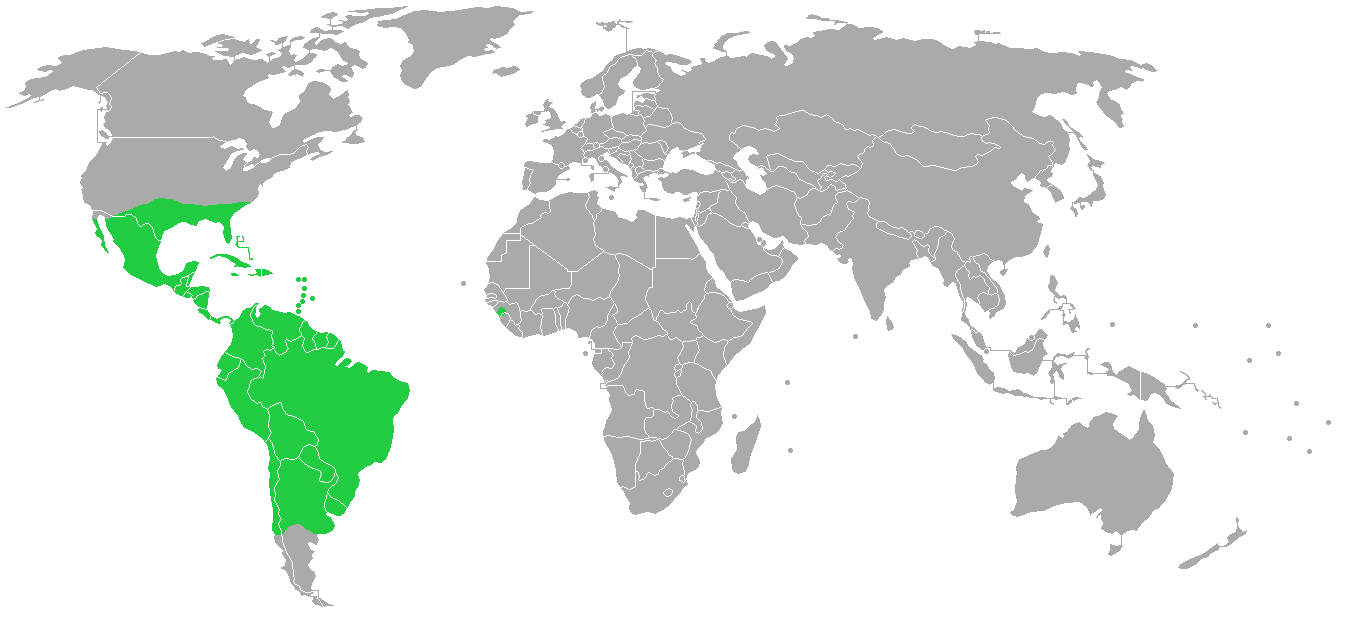 Geographic distribution of Bromeliaceae flora. Improved PNG image of this jpg image. Original Summary Geographic distribution of Bromeliaceae. Map adapted from Bromeliaceae: Profile of an Adaptive Radiation by David H. Benzing of same.